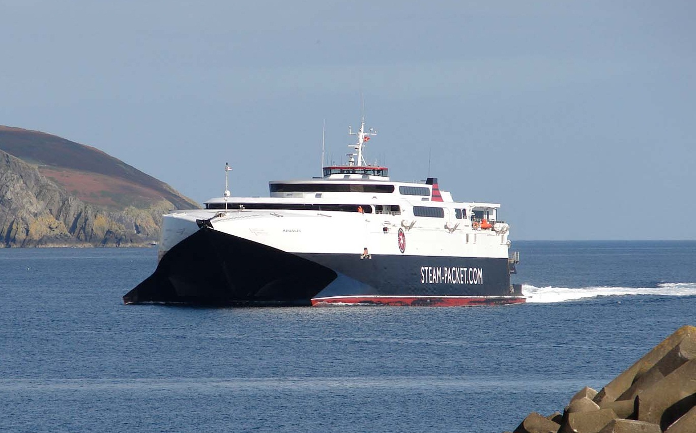 Steam Packet fast ferry Manannan entering Douglas Harbour.